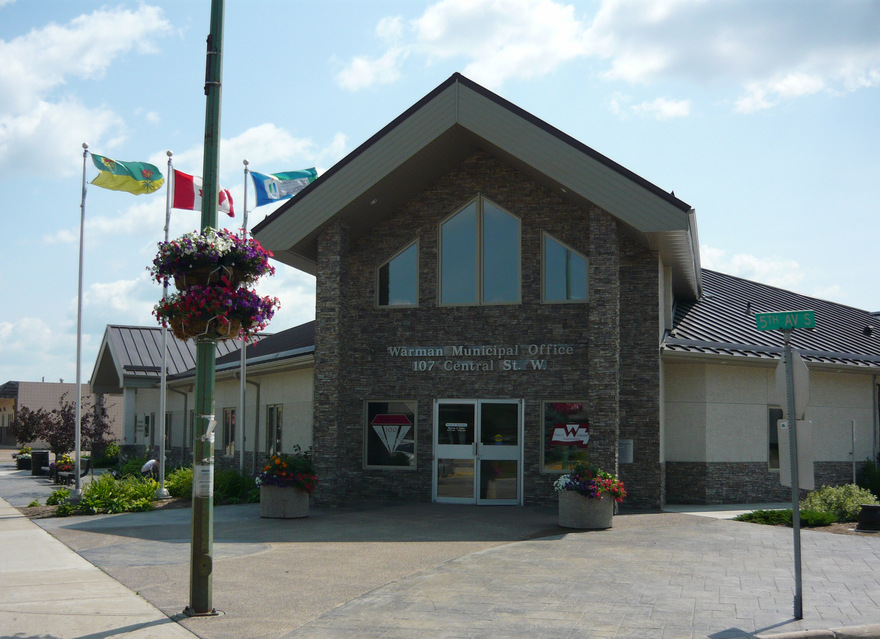 Warman Municipal Office Building at 107 Central Street West (corner of 5th Avenue South), Warman, Saskatchewan.